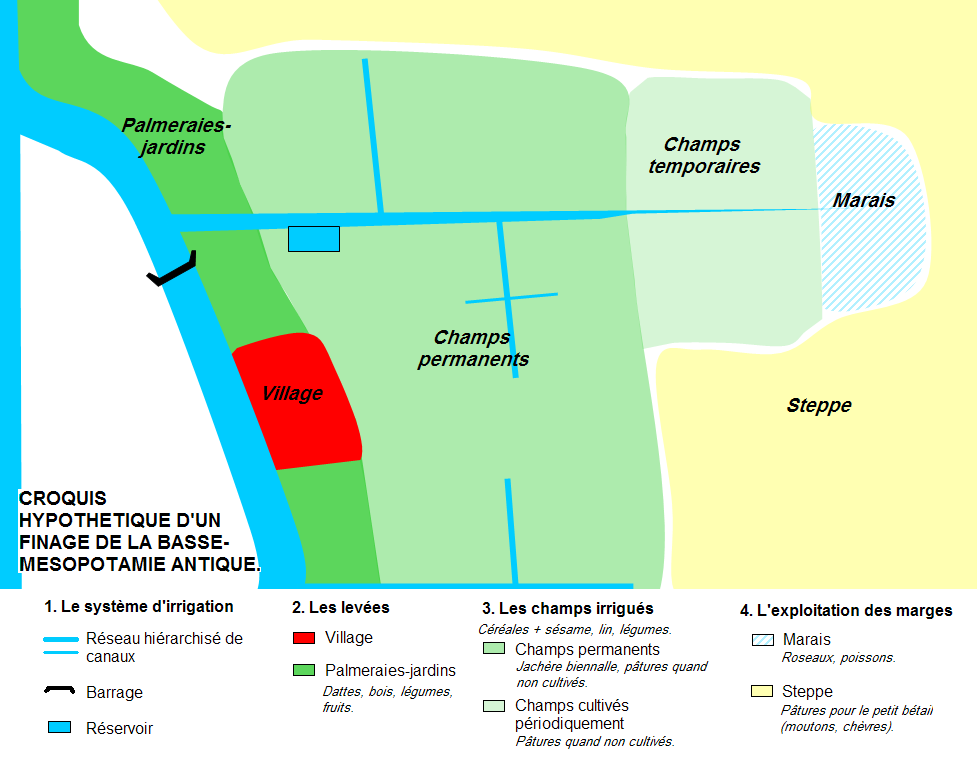 Hypothetical sketch of an Ancient Lower Mesopotamia finage. Adapted from J. N. Postgate, Early Mesopotamia, Society and Economy at the Dawn of History, Londres et New York, 1992, figure 9:1 (p. 174).